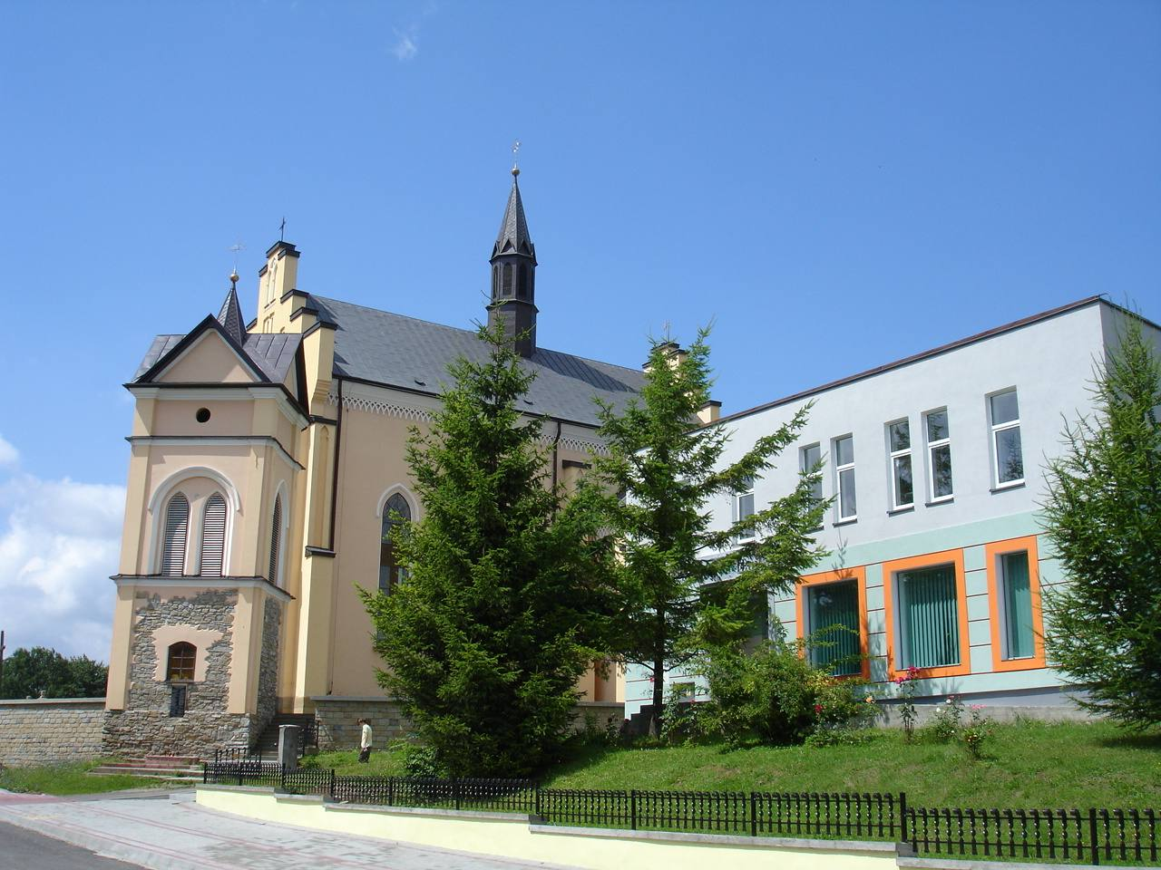 Bukowsko, latin church, and state office